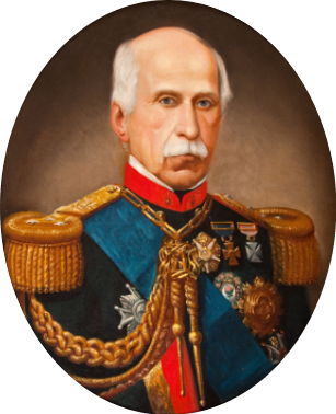 Portrait of the Marquis of Sá da Bandeira, in the Military Academy, Lisbon, Portugal.